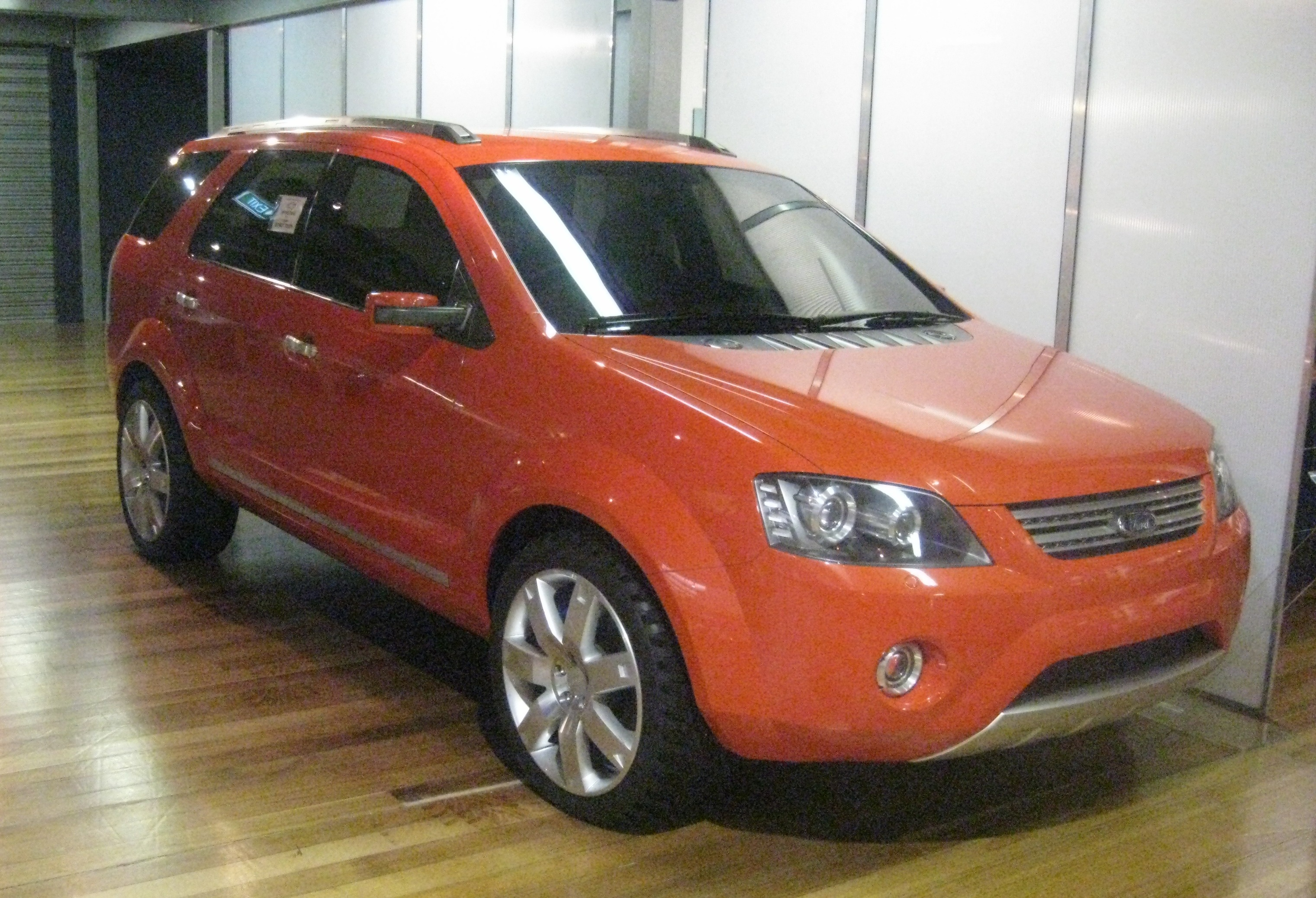 Ford R7 concept vehicle of 2002. The R7 was developed into the Ford Territory production model.